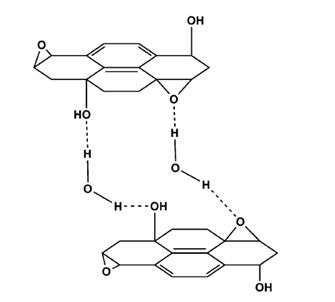 Proposed hydrogen bonding network formed between oxygen functionality on GO and water